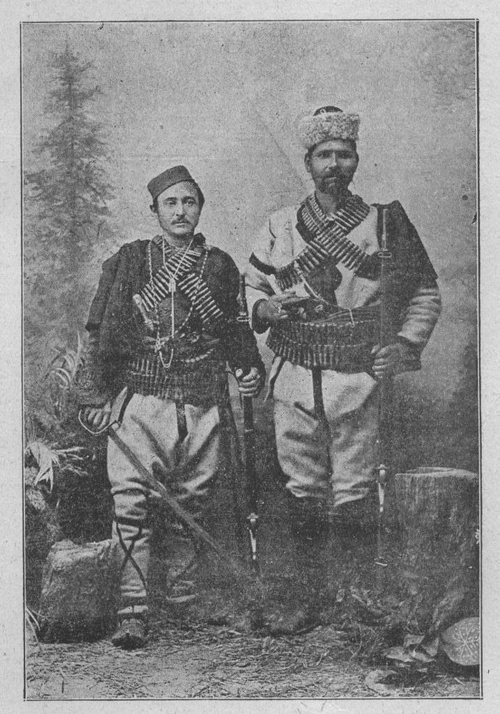 Petko Kelya and Mitko Karabelyata, chetnik of IMARO voevoda Tane Nikolov